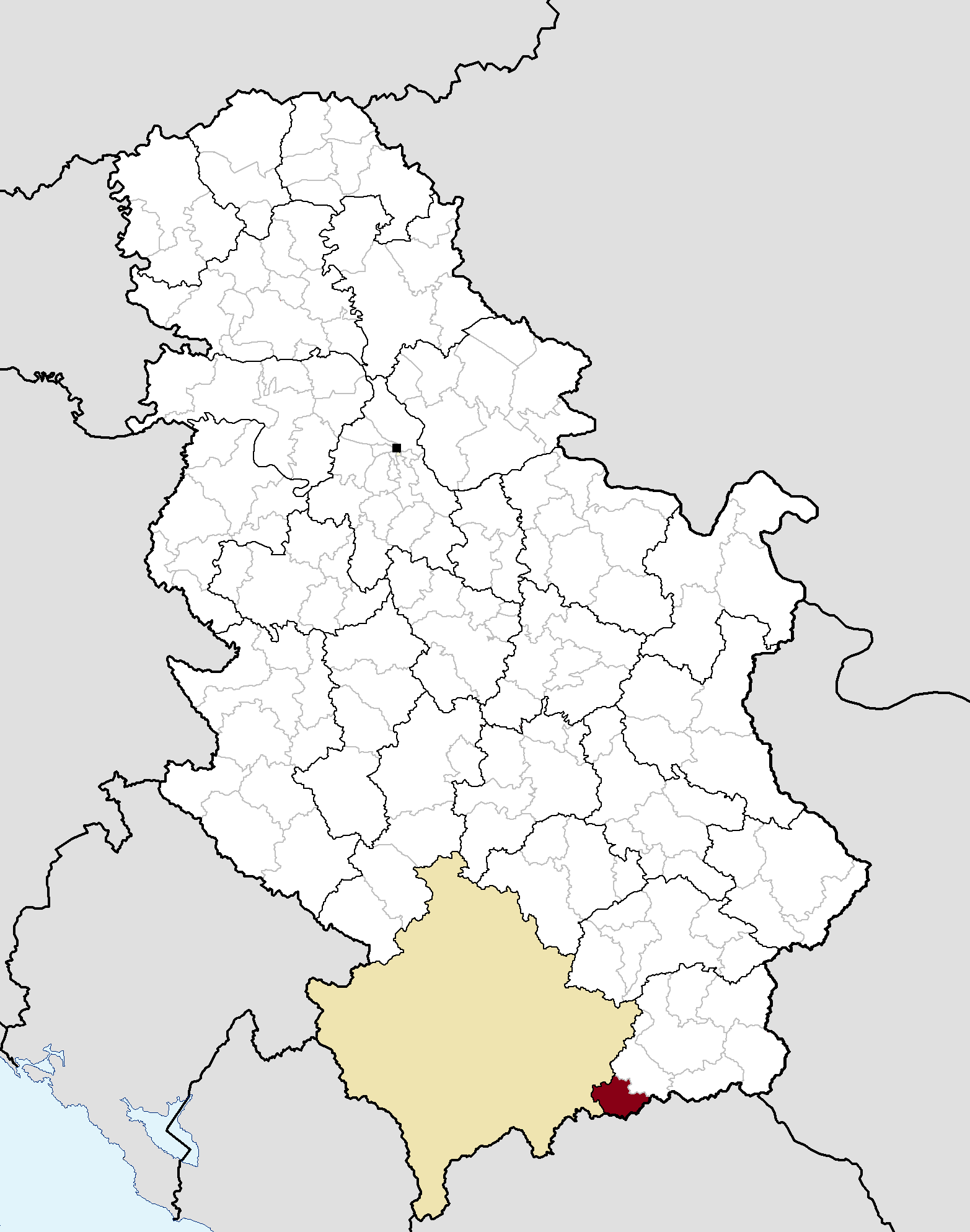 Location of Preševo municipality within Serbia Српски (ћирилица): Локација општине Прешево у Србији